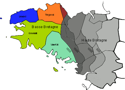 a map of historic linguitic ligne